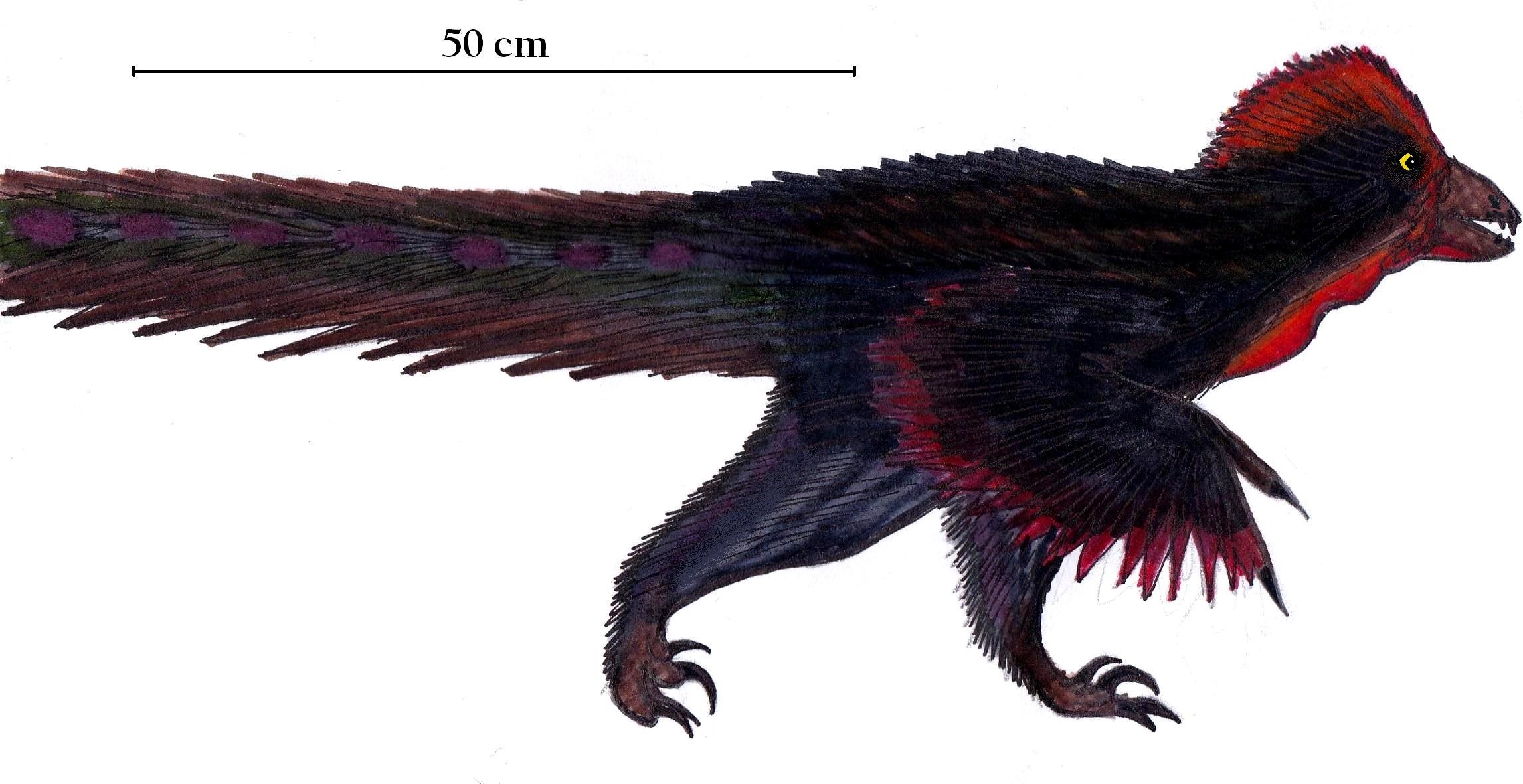 Interpretative drawing of Balaur